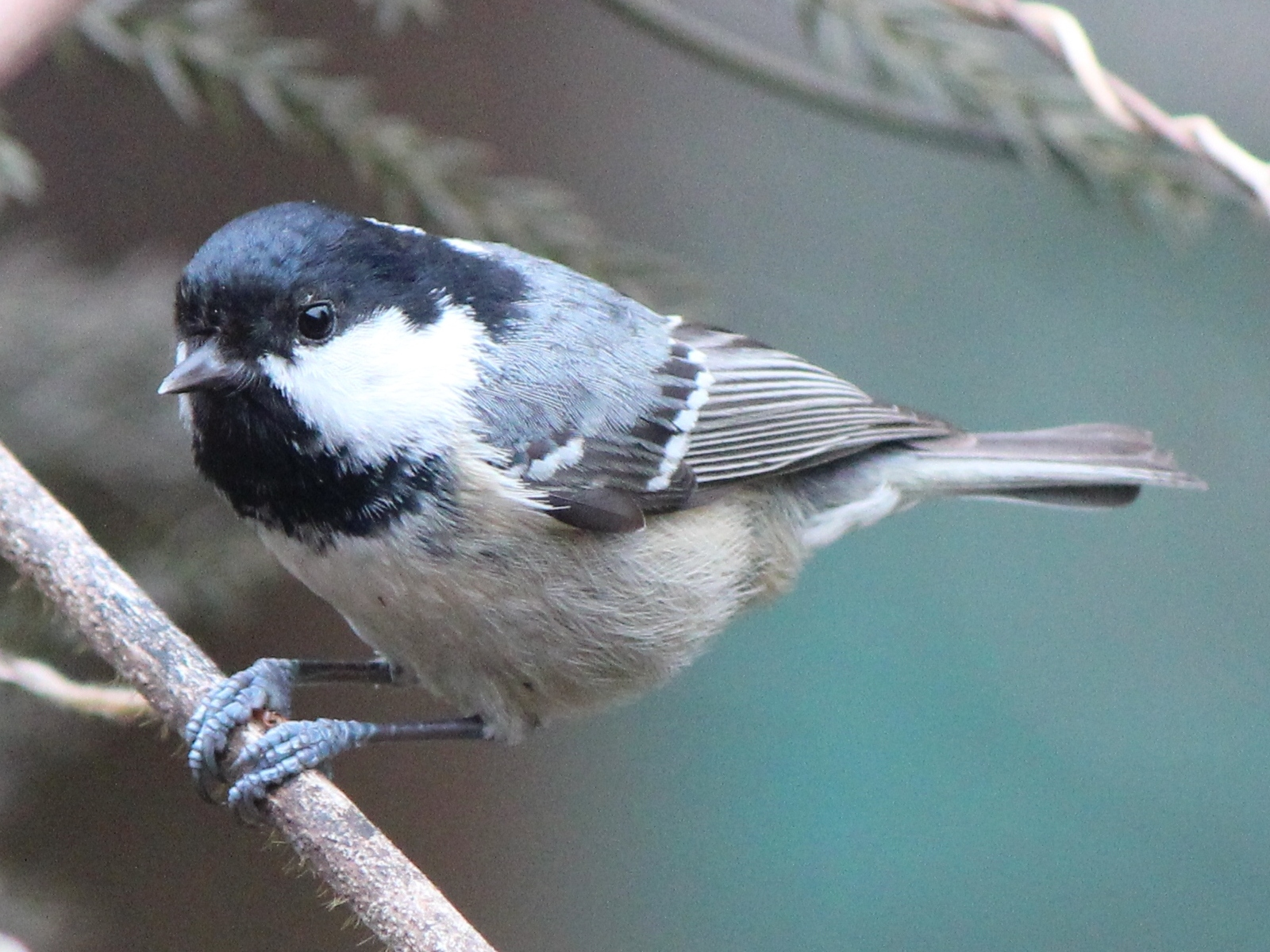 Parus ater insularis (Coal Tit) eating seed of Cryptomeria japonica in Japan.